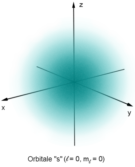 Illustration of the ground state s orbital of a Hydrogen atom. Based upon the Orbital s 1.png image.